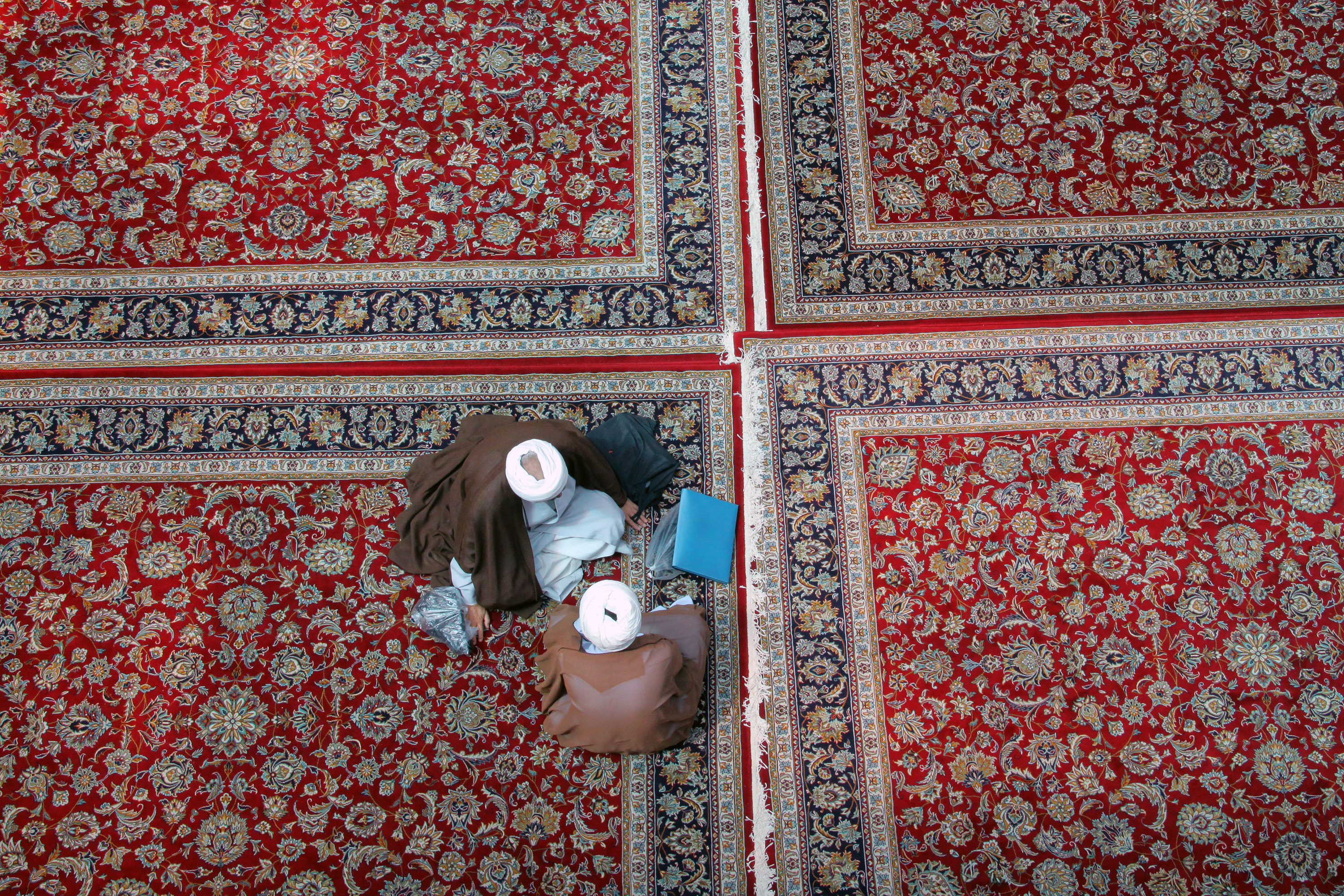 Clergy are some of the main and important formal leaders within certain religions.